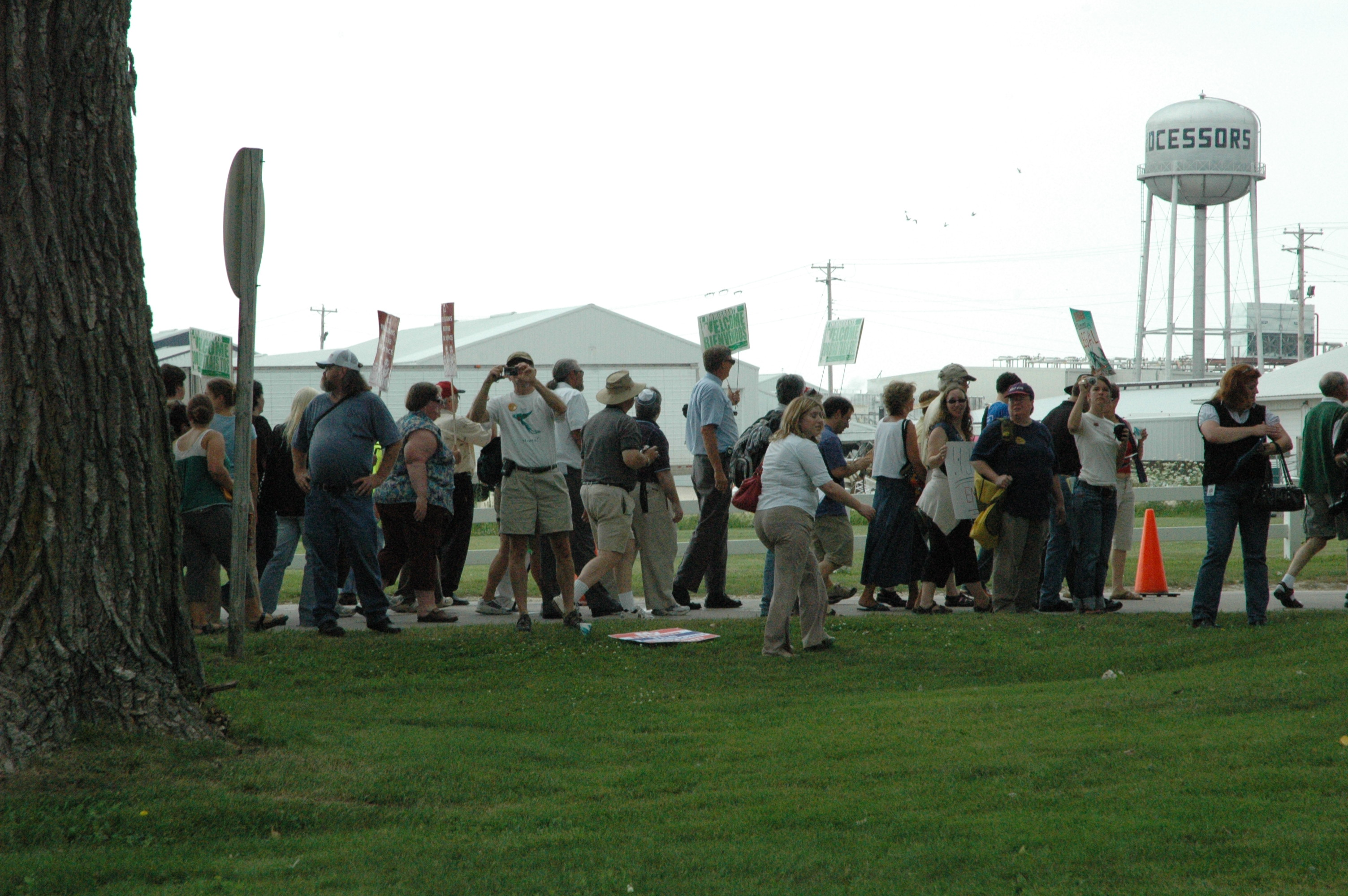 Protest outside Agriprocessors plant in Postville, Iowa